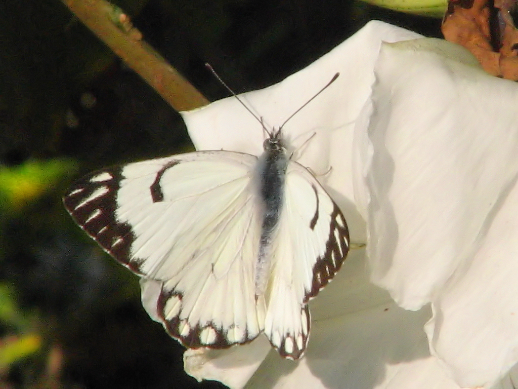 African Caper White (Belenois aurota), Agra, India